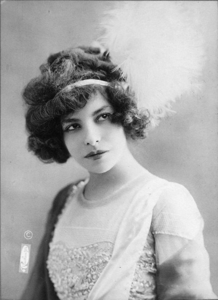 Polaire, French actress.